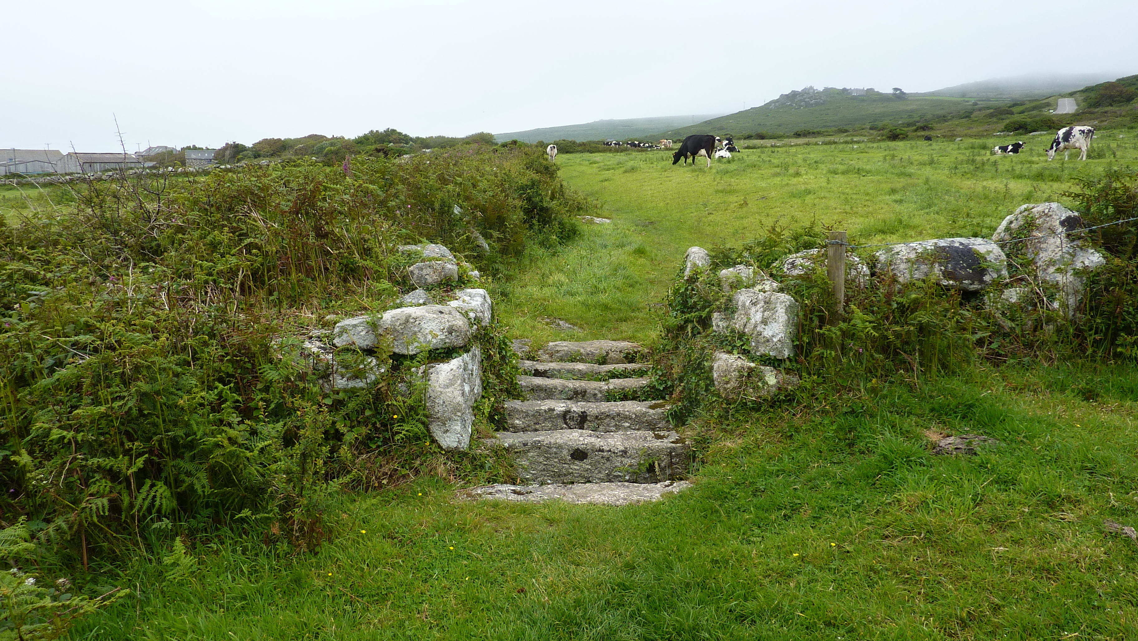 Tremedda Farm Coffen stile & Eagles Nest.